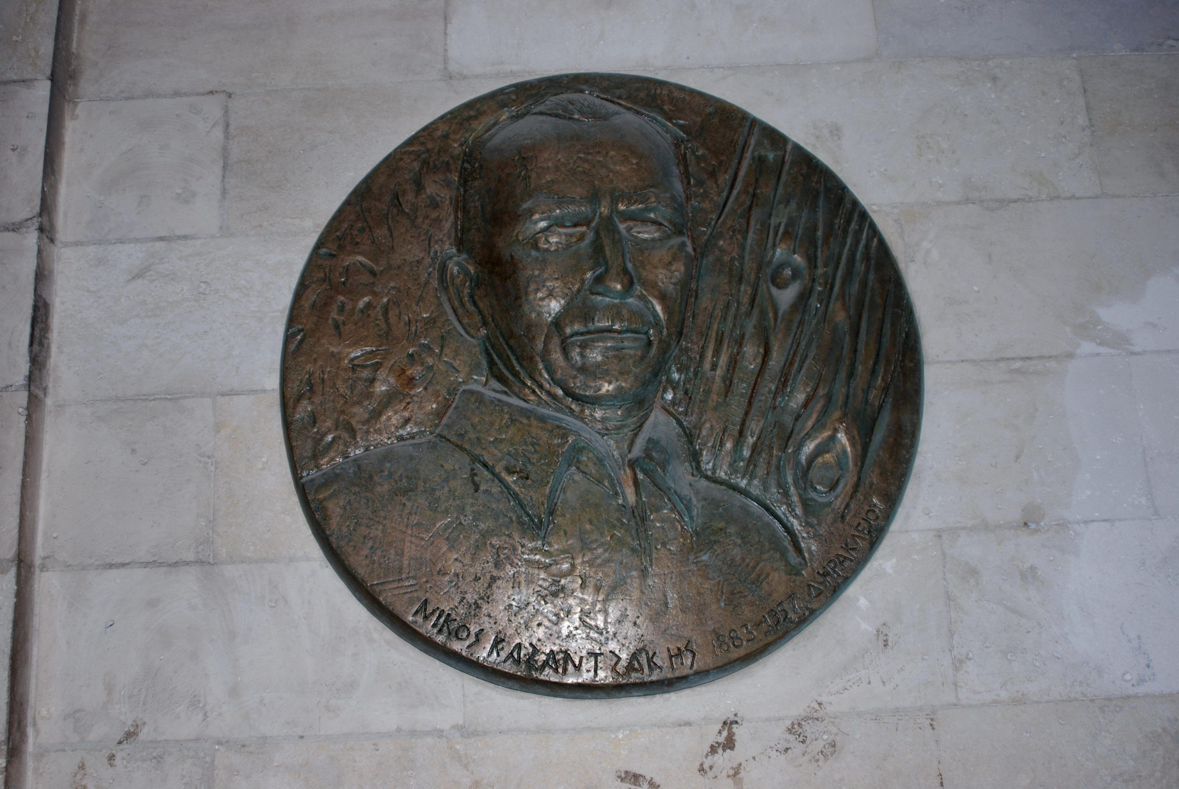 Medallion honoring Nikos Kazantzakis in the Venetian Loggia, Heraklion, Crete.